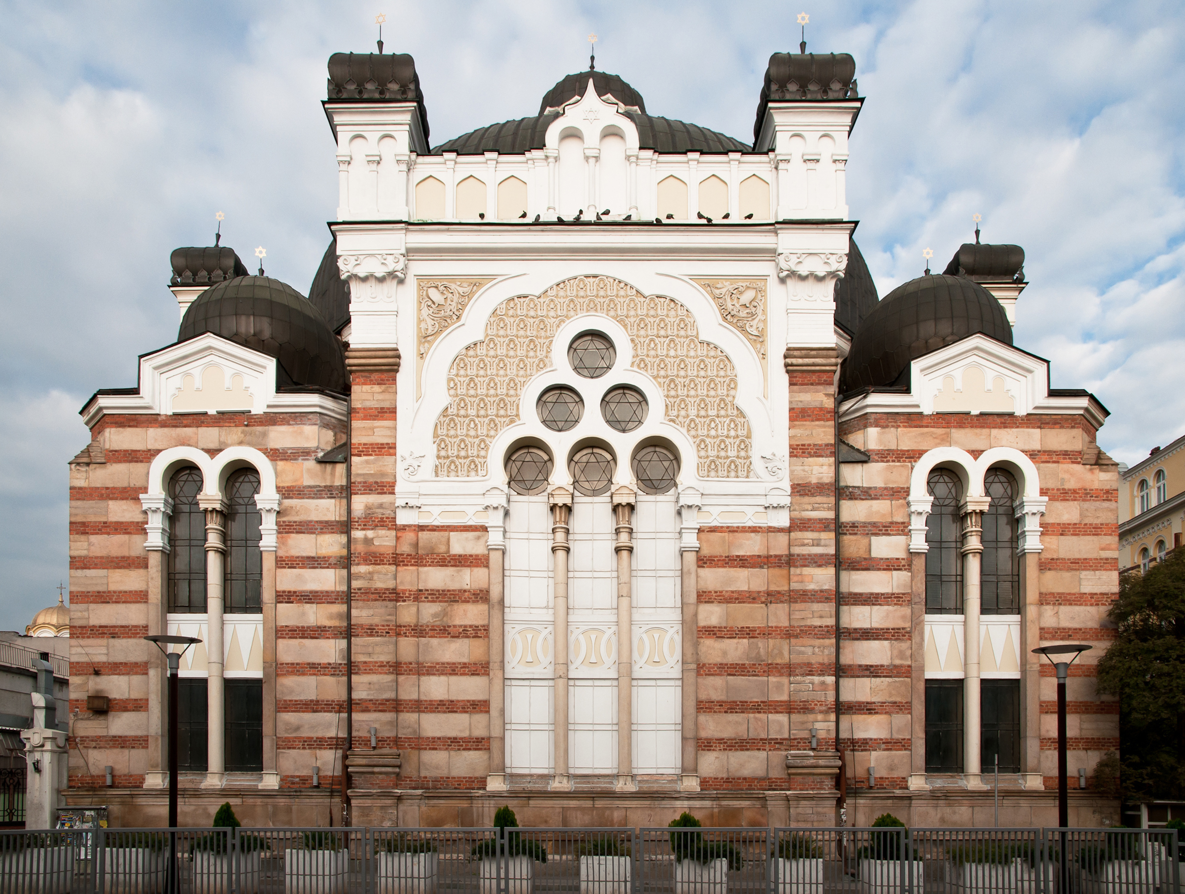 Sofia Synagogue, Bulgaria. East elevation.